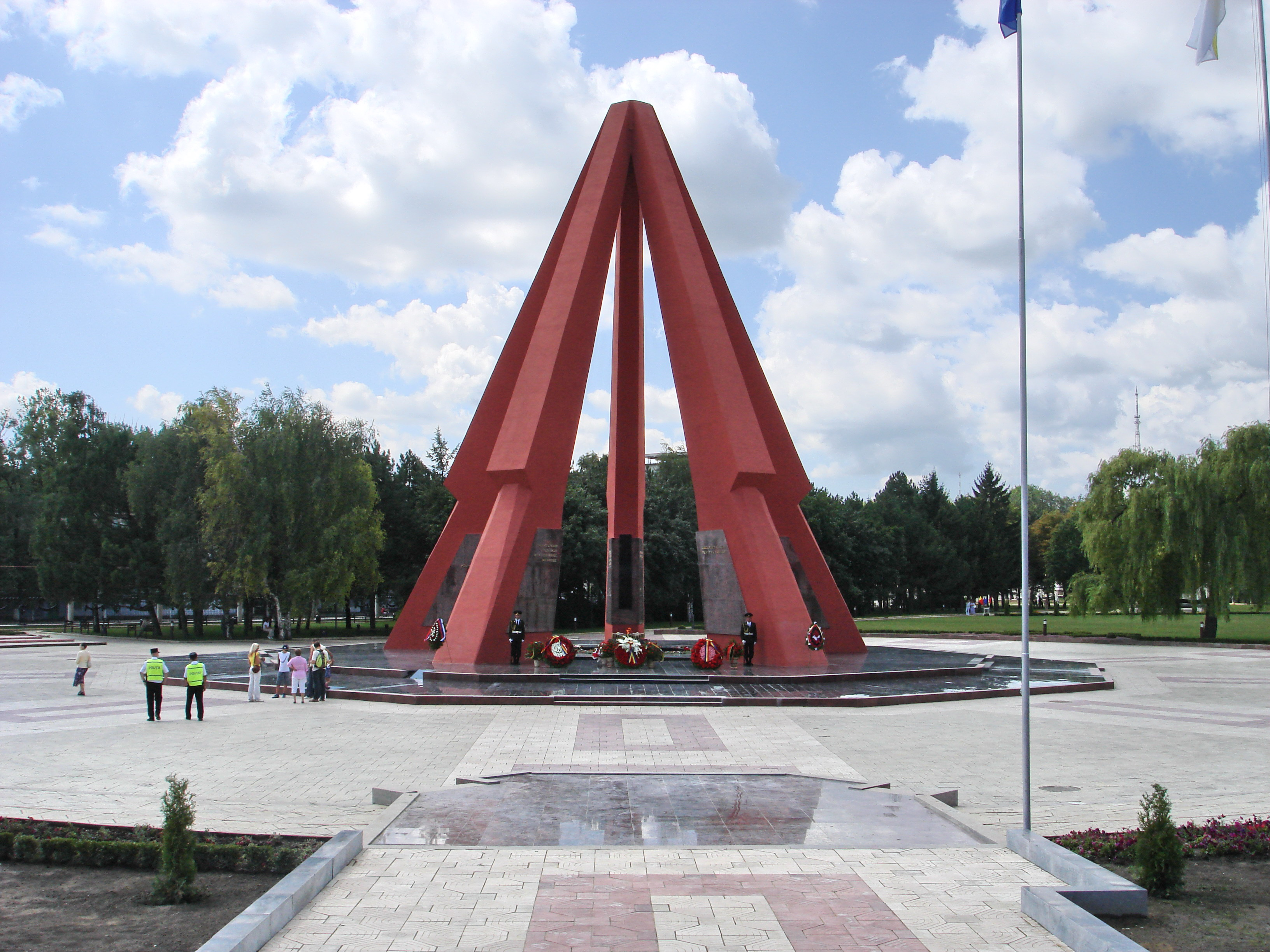 Memorial complex «Eternitate»